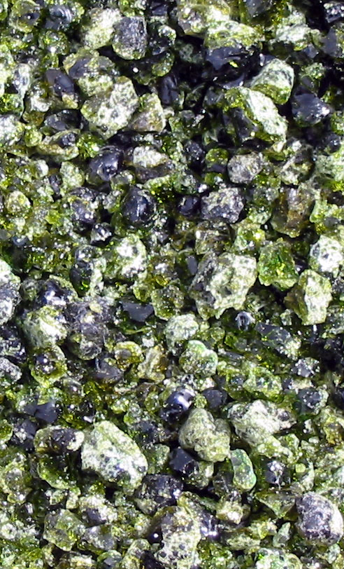 Glass granules in Järvakandi galss factory